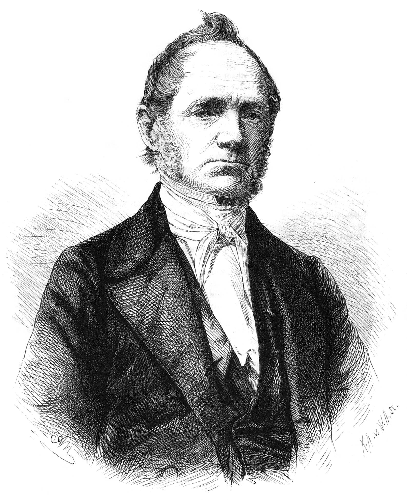 no caption